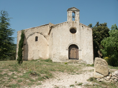 Notre-Dame-de-Beauvoir chapel, L'Ermitage. Cucuron, Vaucluse. South facade.